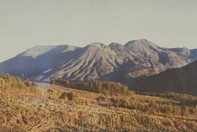 The volcanic terrain of the Dieng plateau, the "Abode of the Gods," contains the oldest temples in Java. The Dieng volcanic complex, seen here from the SE, consists of two or more stratovolcanoes and numerous small craters and cones of Pleistocene-to-Holocene age over an area of 6 x 14 km. Minor phreatic eruptions have occurred in historical time, sometimes associated with toxic gas emissions.